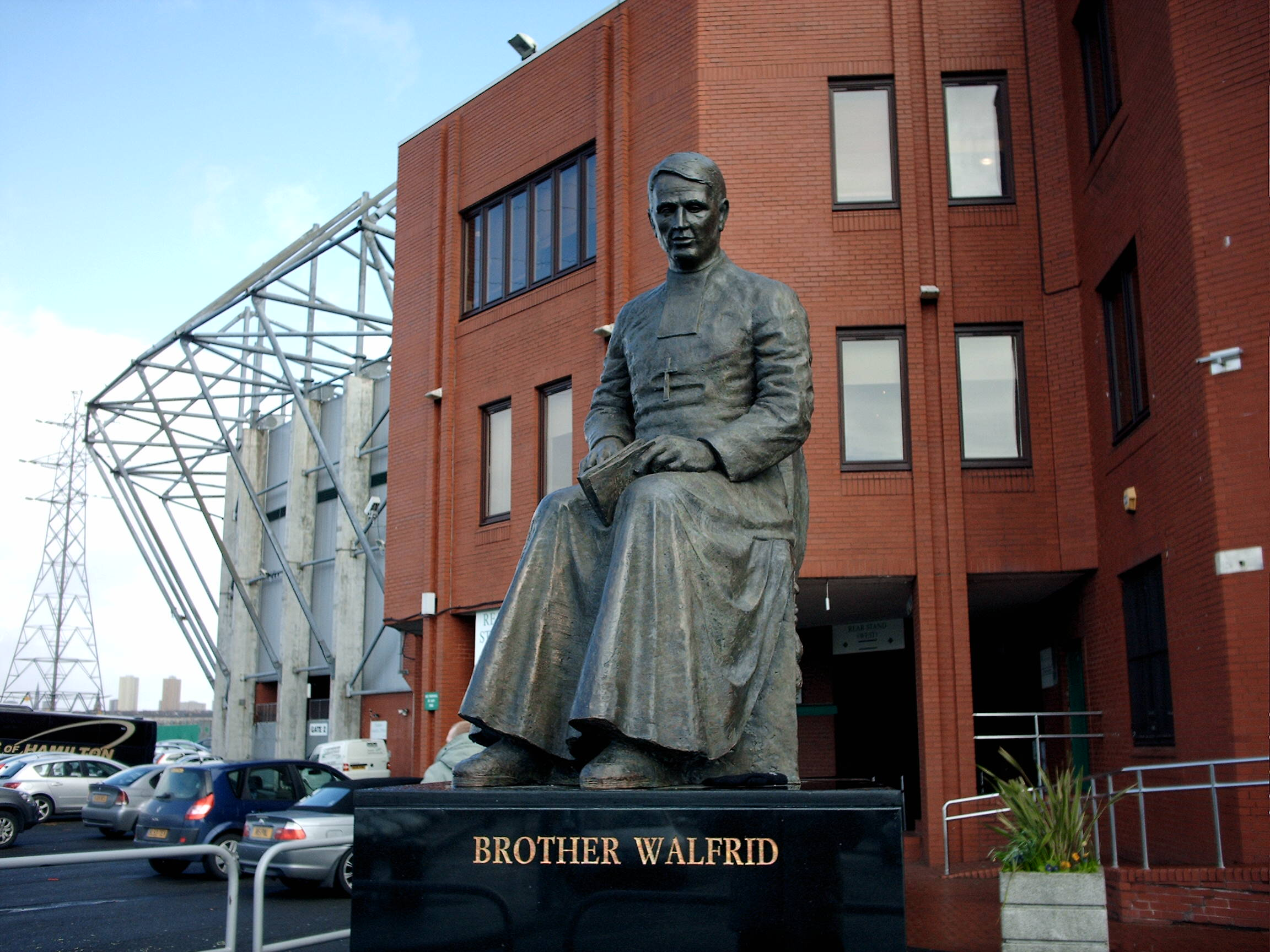 The Brother Walfrid statue outside Celtic Park.